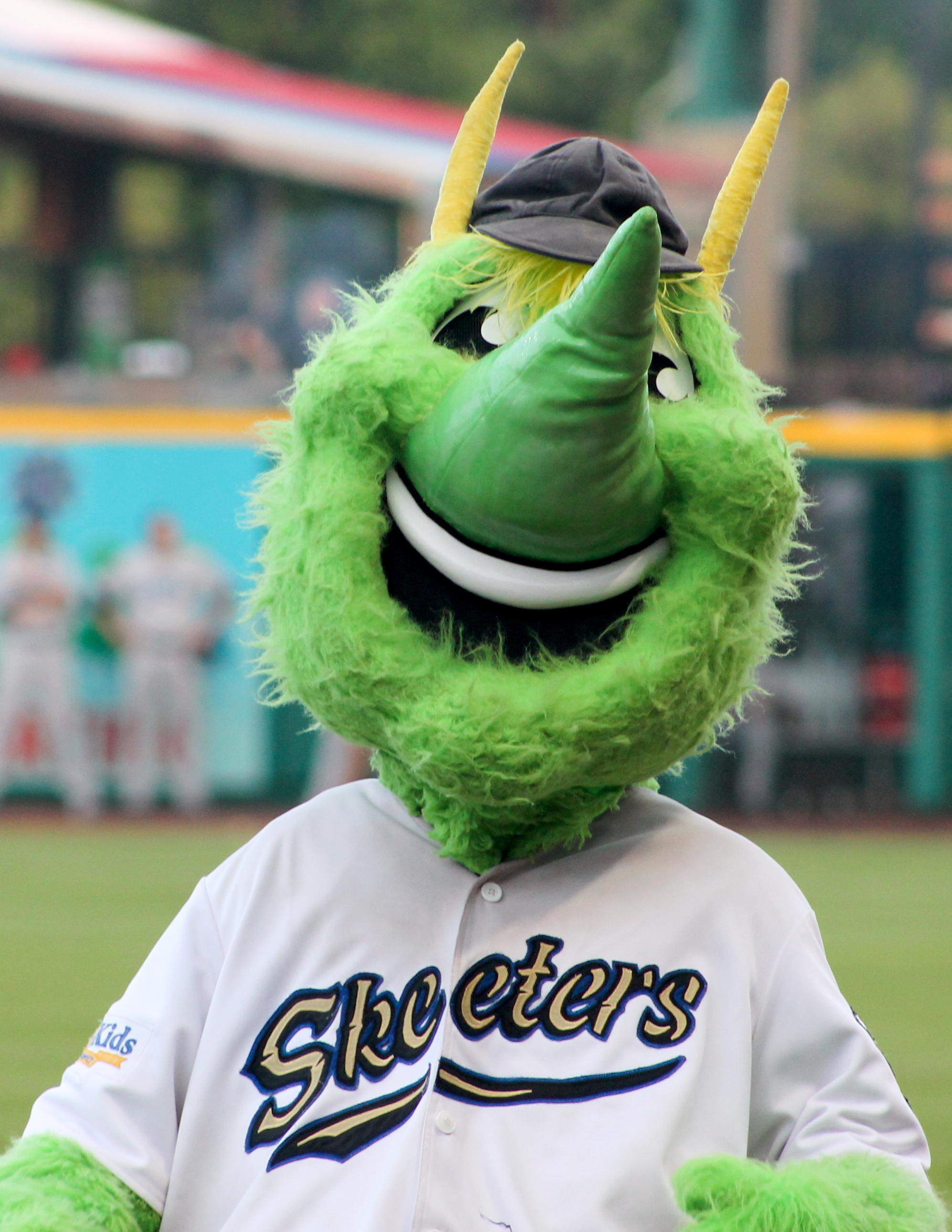 Swatson, one of the mascots for the Sugar Land Skeeters of the Atlantic League of Professional Baseball during a July 2014 game.